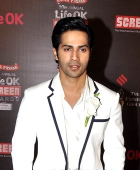 Varun Dhawan at 20th Annual Screen Awards, 2014, January 2014